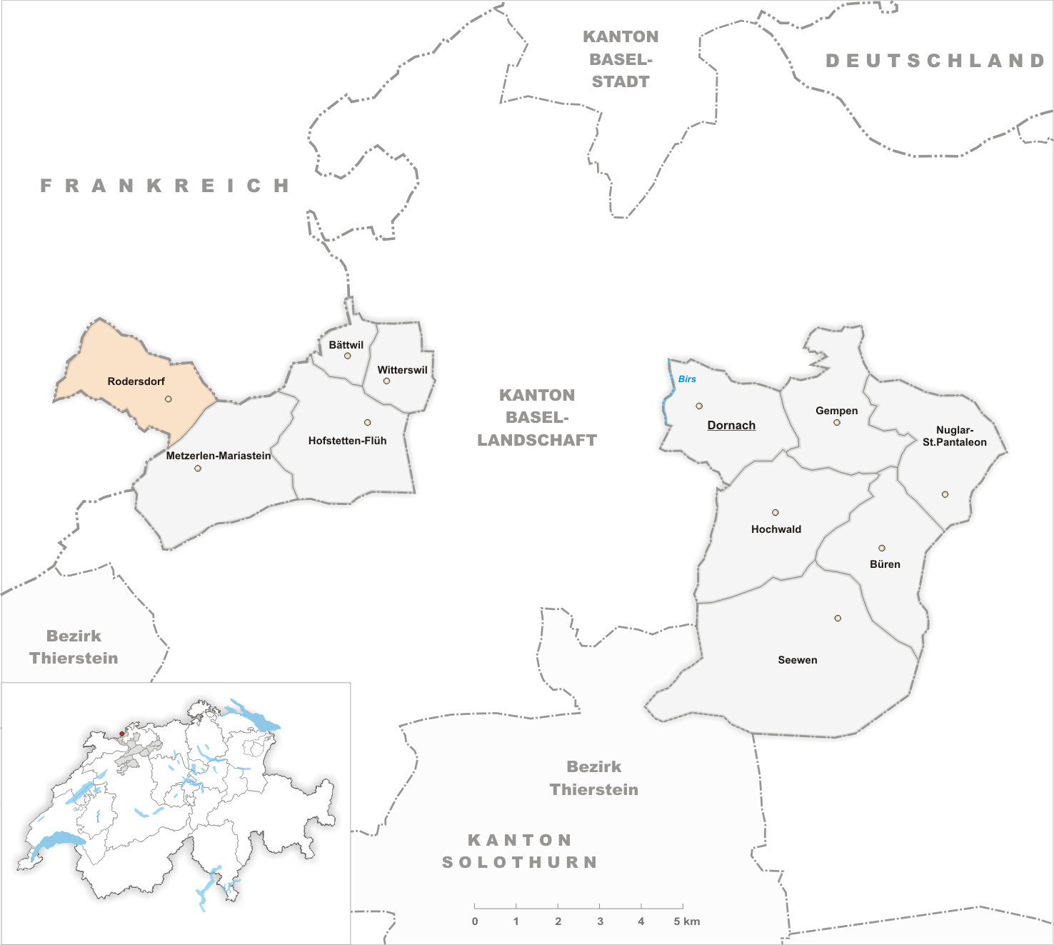 Municipality Rodersdorf